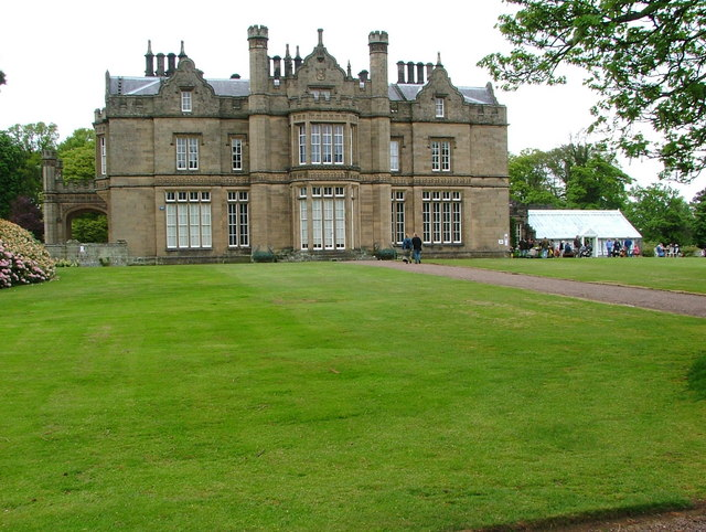 Lilburn Tower Lilburn Tower is a large country house near Wooler in Northumberland. It was built in the 1830's by John Dobson who was a very well known north eastern architect, and who was also responsible for much of Newcastle's famous Grainger Town. It is in private ownership and normally closed to the public, however the gardens and grounds are opened to the public once a year.